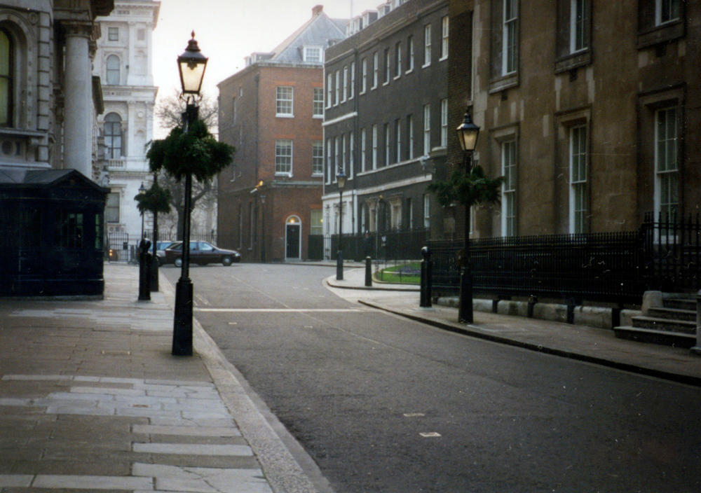 Downing Street, just north of the Houses of Parliament, is where government ministers keep their official residences. No. 10 is the official residence of the Prime Minister. Downing Street is closed to the public. This photo was taken by aiming my camera lens between the gate bars.